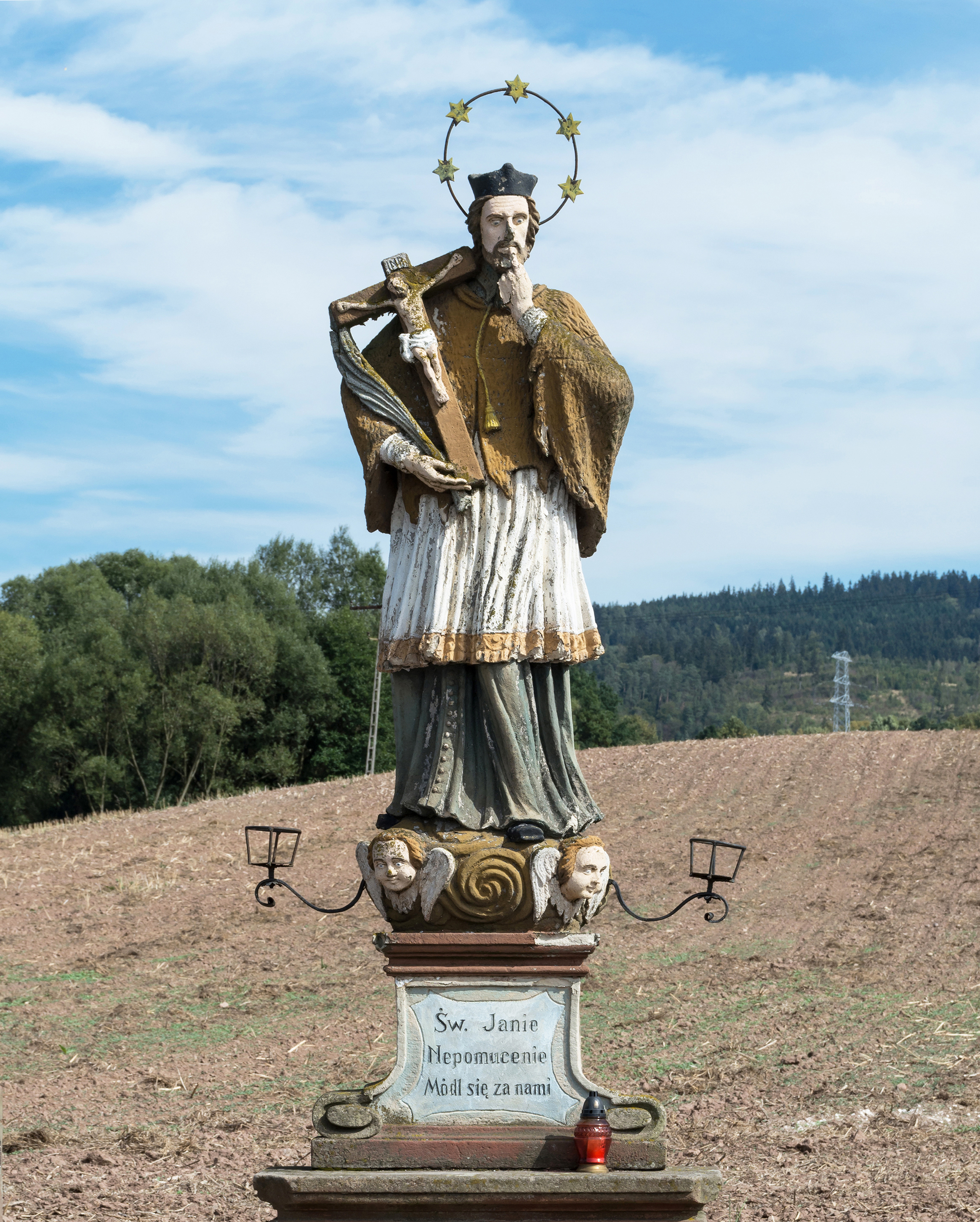 John of Nepomuk statue in Ścinawka Średnia